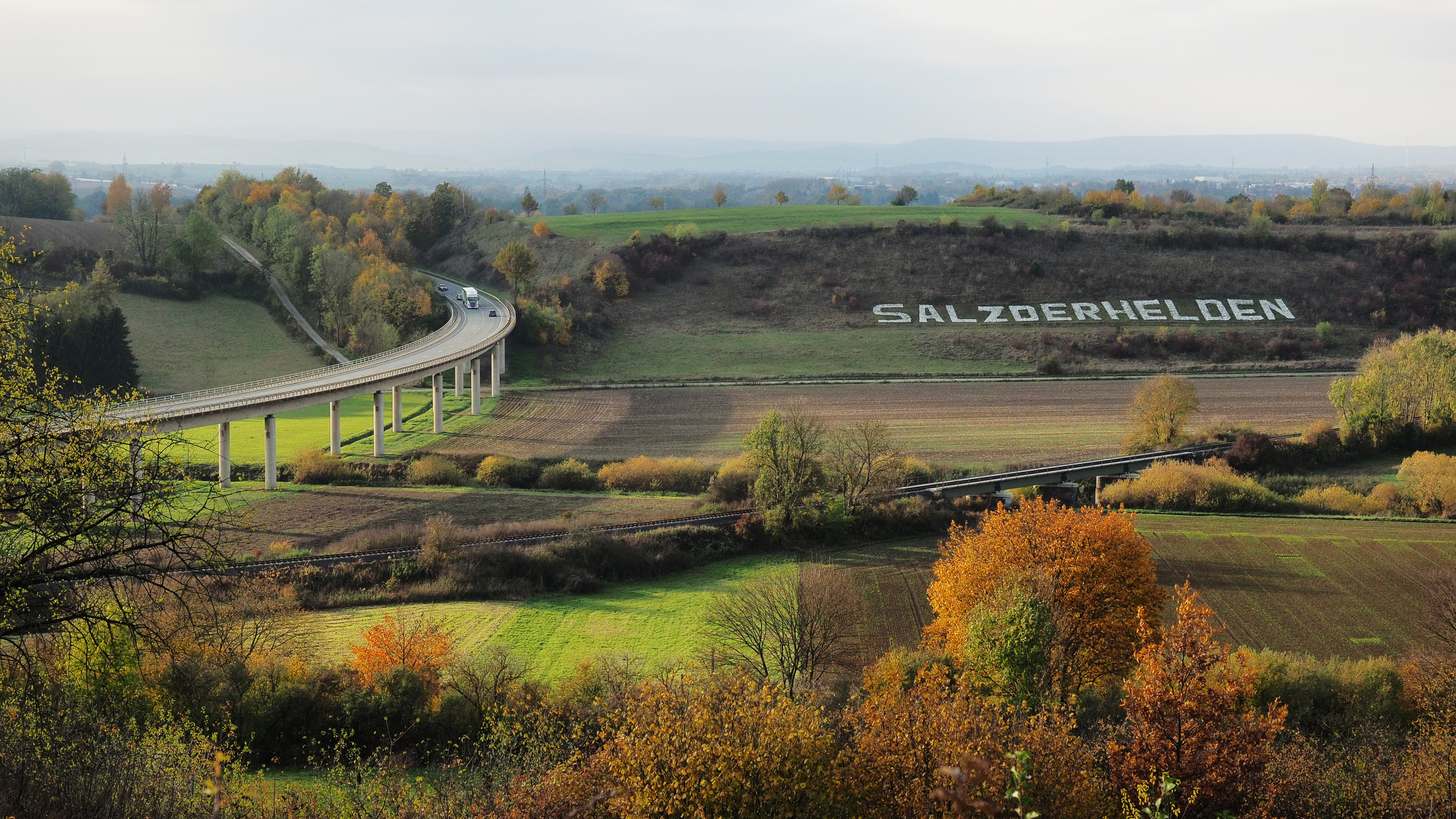 Name of Salzderhelden laid out with stones on hillside